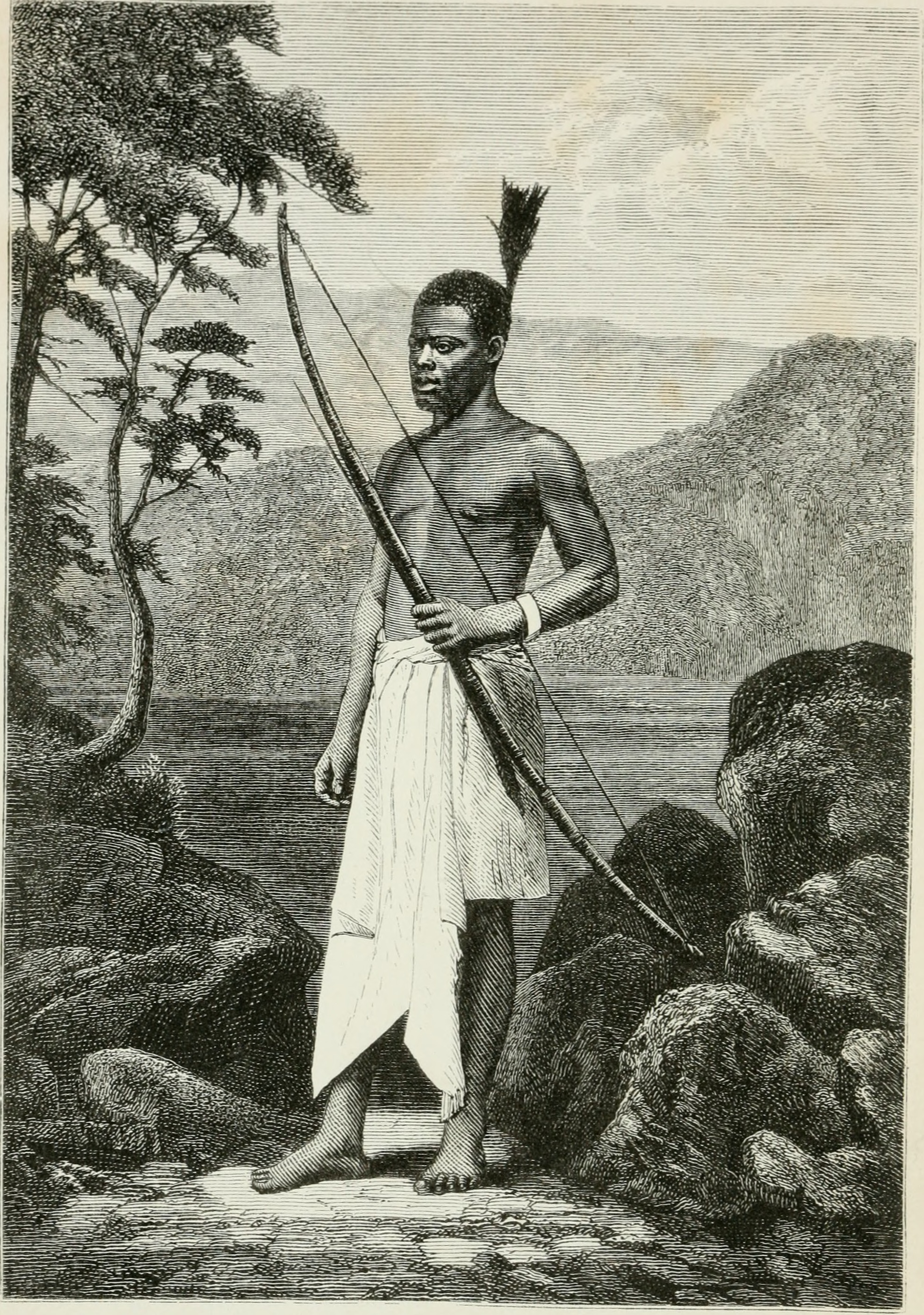 "Chuma, Livingstone's servant: of the Wahiao tribe". Title: Africa Year: 1878 (1870s) Authors: Johnston, Alexander Keith, 1804-1871 Keane, A. H. (Augustus Henry), 1833-1912 Subjects: Africa -- Description and travel Africa -- Social life and customs Publisher: London : Edward Stanford Text Appearing Before Image: ' Text Appearing After Image: CHUMA, Livingstones Servant : of the Wahiao Tribe.(From a Pliotograph.) Frontispiece Chuma was released from the slave-traders on the Shire river by Bishop Mackenzie and hisparty, and was constantly with Dr. Livingstone during his last nine years of travel. Heaccompanied Livingstones remains to England, and has subsequently served with BishopSteere in the Nyassa country. STANFORDSCOMPENDIUM OF GEOGRAPHY AND TRAVEL BASED ON HELLWALDS DIE ERDE UND IHRE VOLKER AFRICA EDITED AND EXTENDED By KEITH JOHNSTON, FELLOW OF THE ROYAL GEOGRAPHICAL SOCIETY WITH ETHNOLOGICAL APPENDIX BY A. H. KEANE, B.A. MAPS AND ILLUSTRATIONS LONDONEDWAED STANFORD, 55 CHARING CROSS, S.W. 1878 -SDffS T(c PREFACE. In reading through Mr. Keanes excellent translation ofthat section of Von Hellwalds Die Erde und Hire Volherwhich is devoted to Africa, it soon became evident that theauthor had taken a more national view of our presentknowledge of this vast continent than would he acceptableto English readers—German workafrica00johnrich